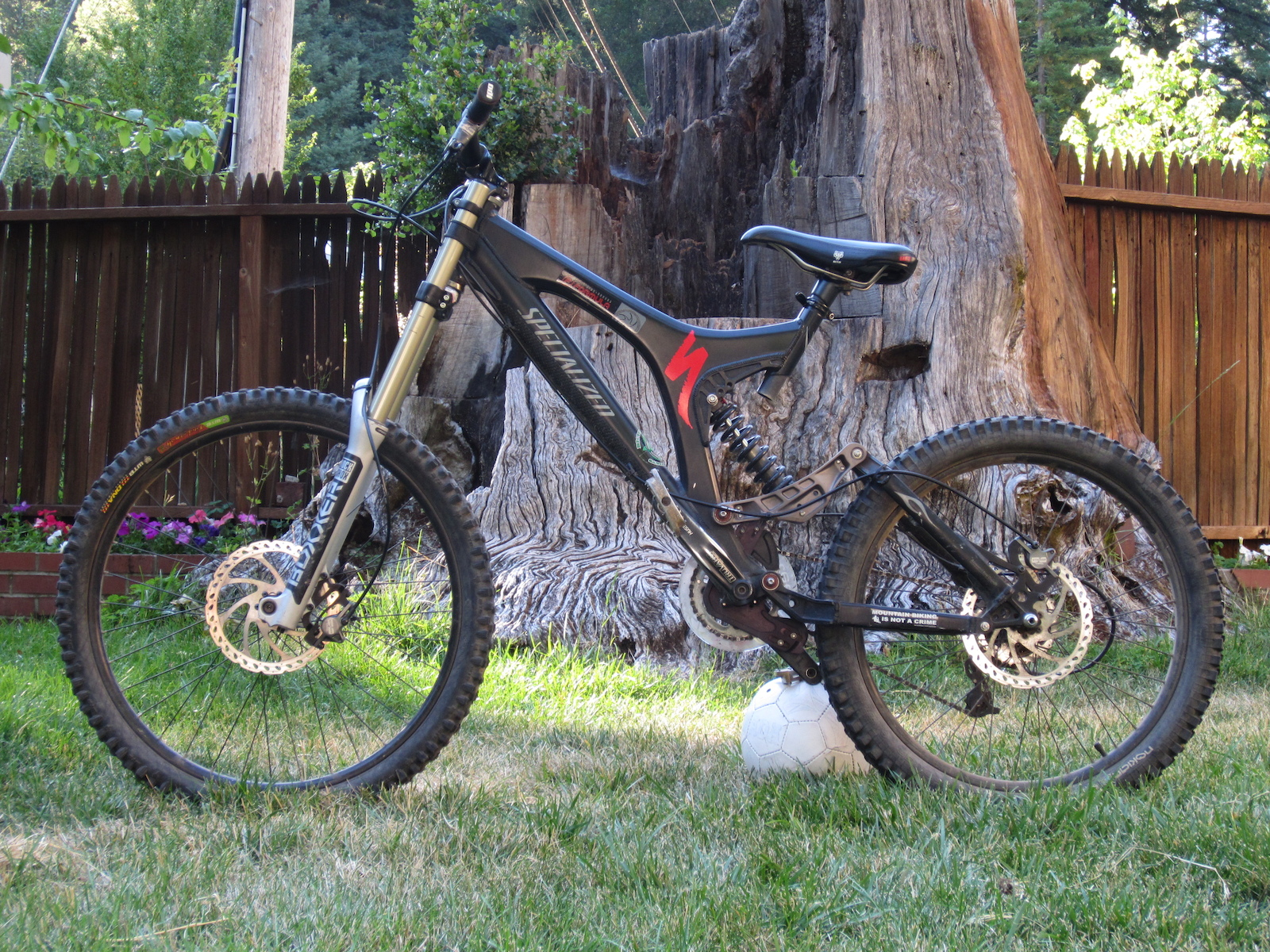 A Specialized Big Hit DH/Expert (2003-2005) that has been upgraded.